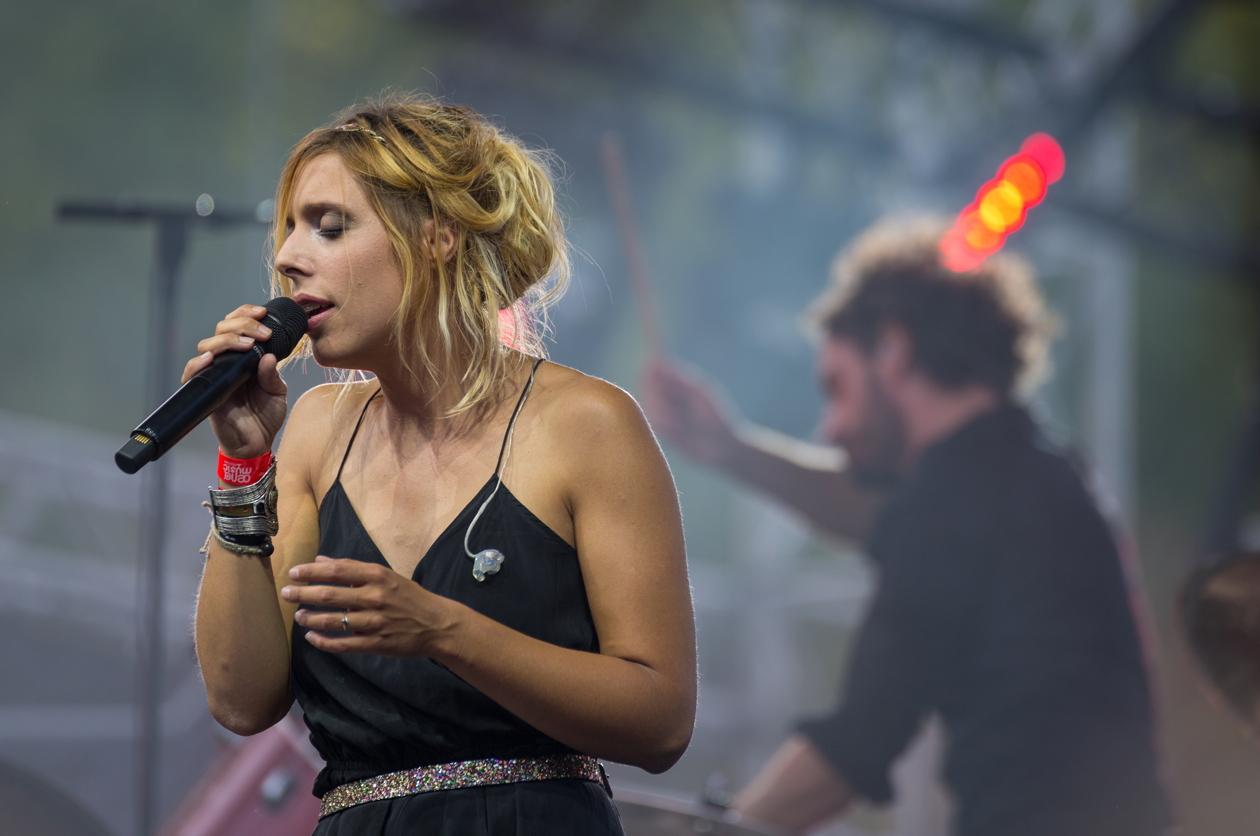 Cats on Trees at Bastille Day 2015 concert, in Toulouse.